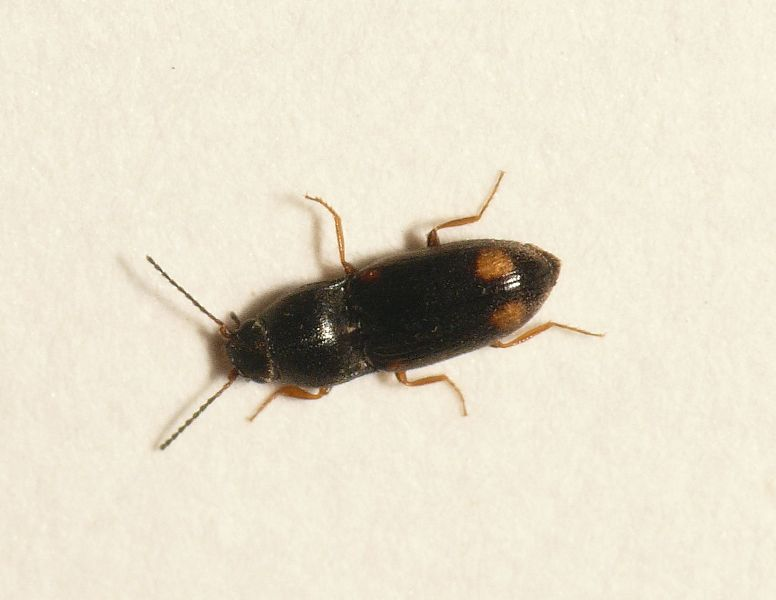 Zorochros dufouri. Location: The Netherlands - Rhenen - Blauwe Kamer